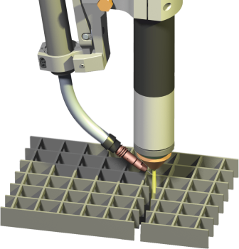 HotWire process principle